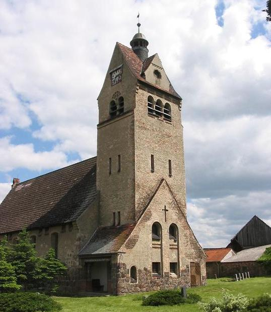 Church in Baitz. The village Baitz is an incorporated part of the town Brück in Brandenburg, Germany.